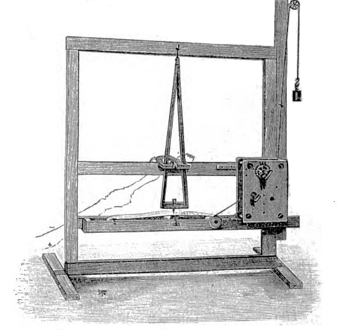 no caption